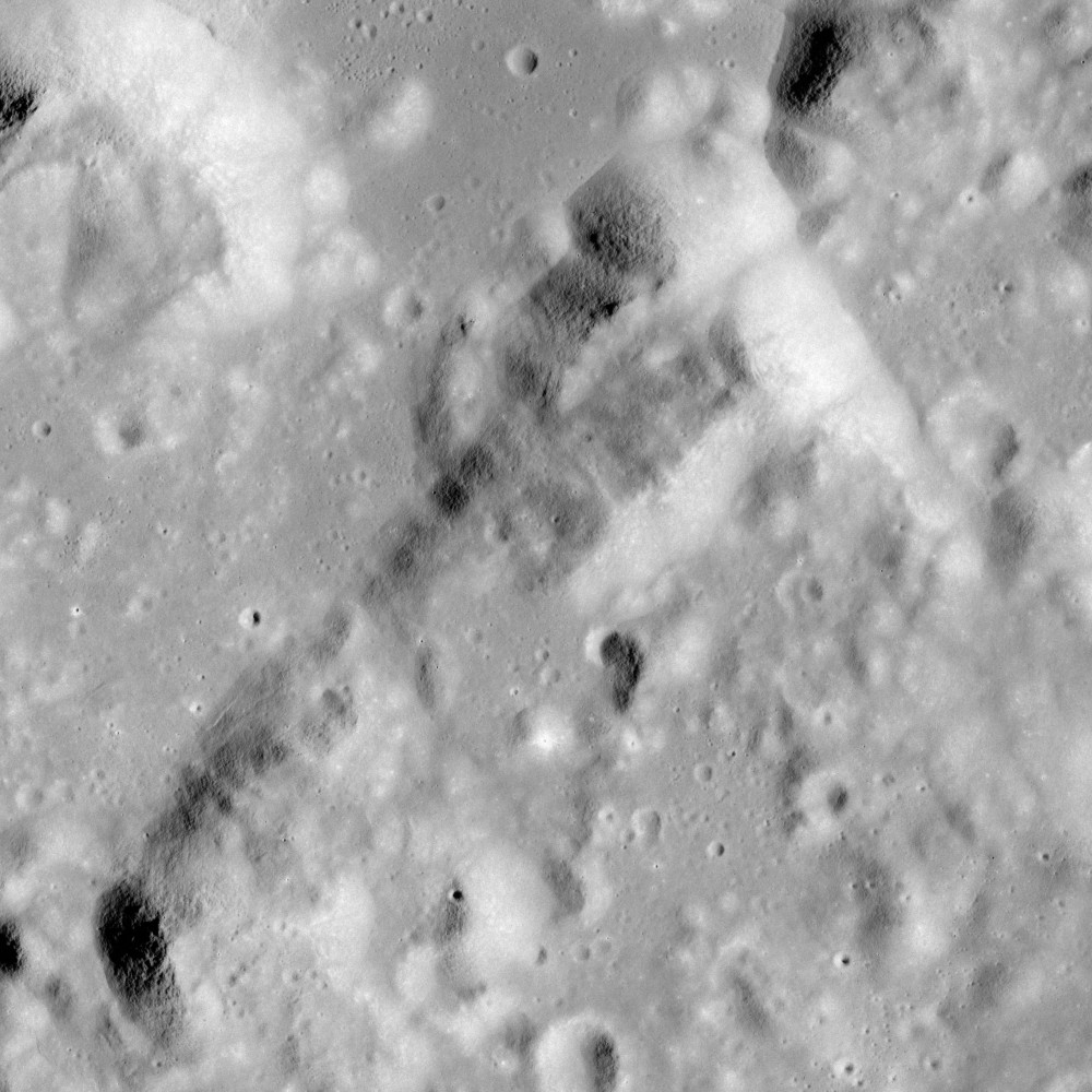 Mons Vitruvius, on the moon. The mountain trends northeast-southwest, and the summit (elevation 7104 m) is in upper right. The valley at the top of the image is Taurus-Littrow, where Apollo 17 landed in 1972.